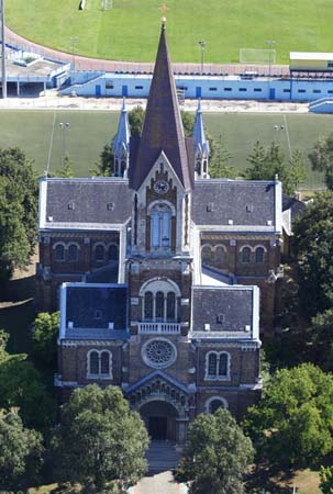 Budapest, district XVI, Hungary, aerial photography